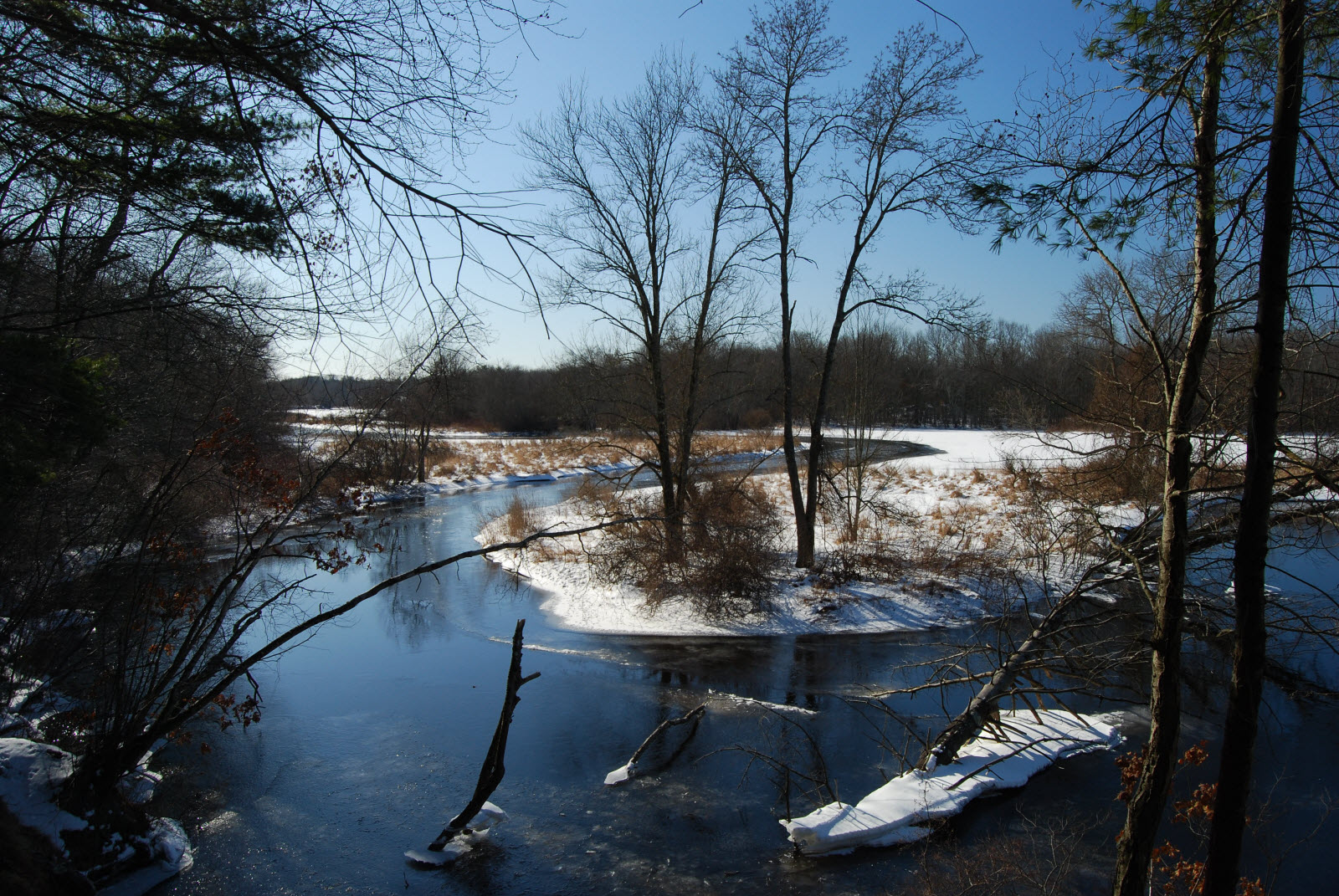 View of Three Mile River in winter from Boyden Wildlife Refuge, Taunton, Massachusetts